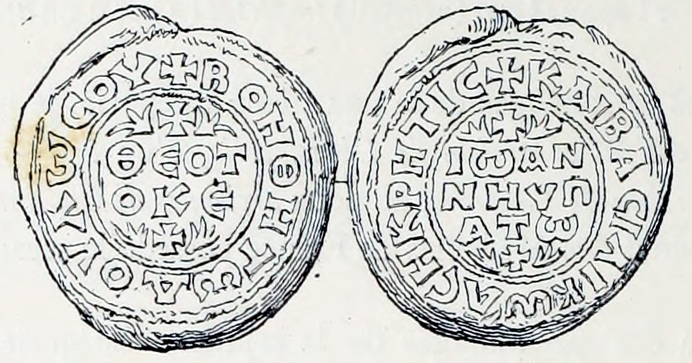 Seal of the hypatos and basilikos asekretis Ioannes (Komnenian period)